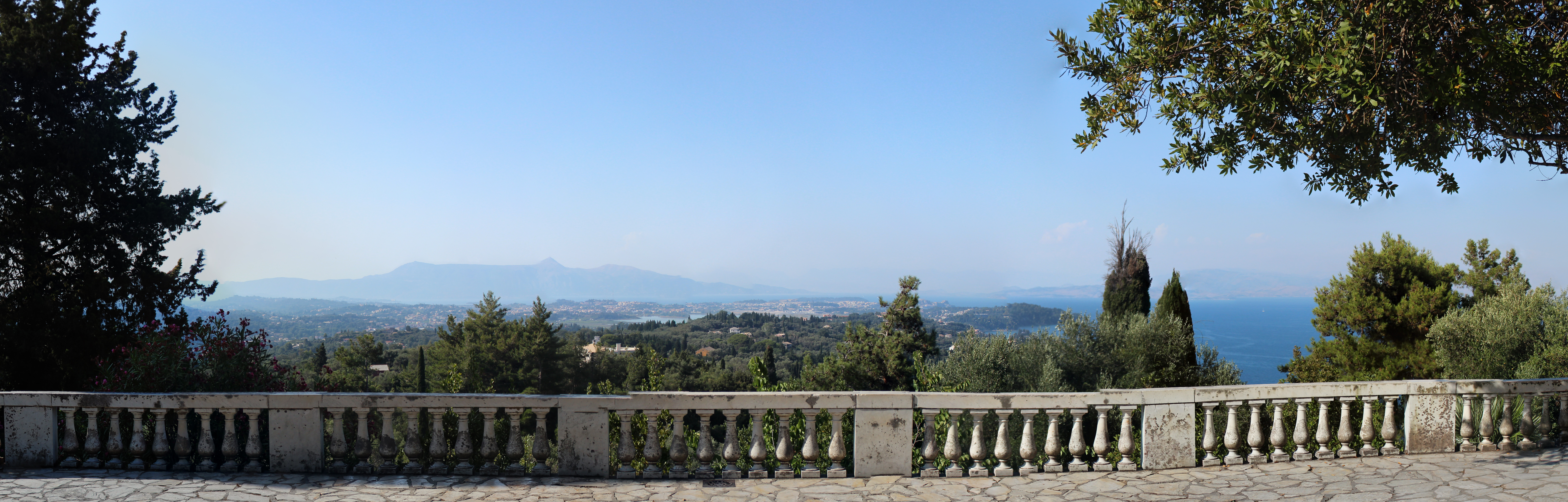 Panoramic view from Achilleion balcony towards Corfu-city